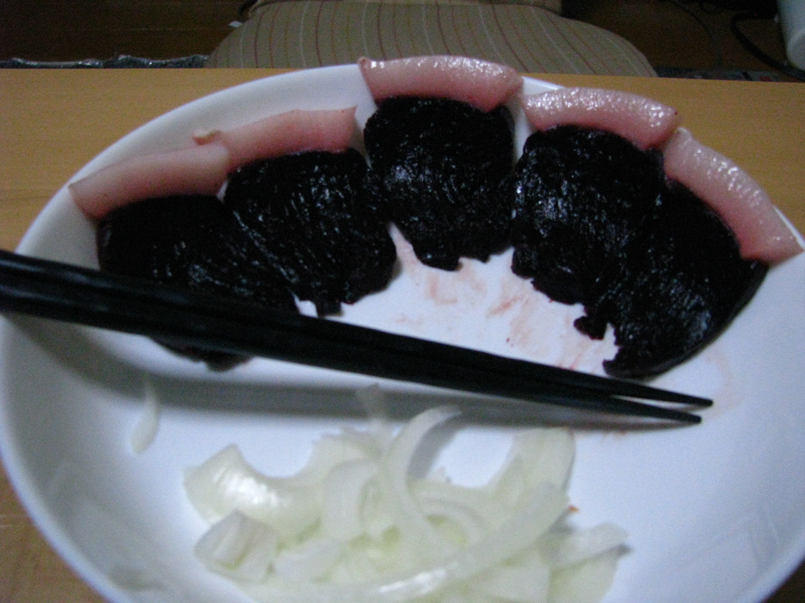 Plate of dolphin sashimi in Japan. Slices of raw dolphin meat.